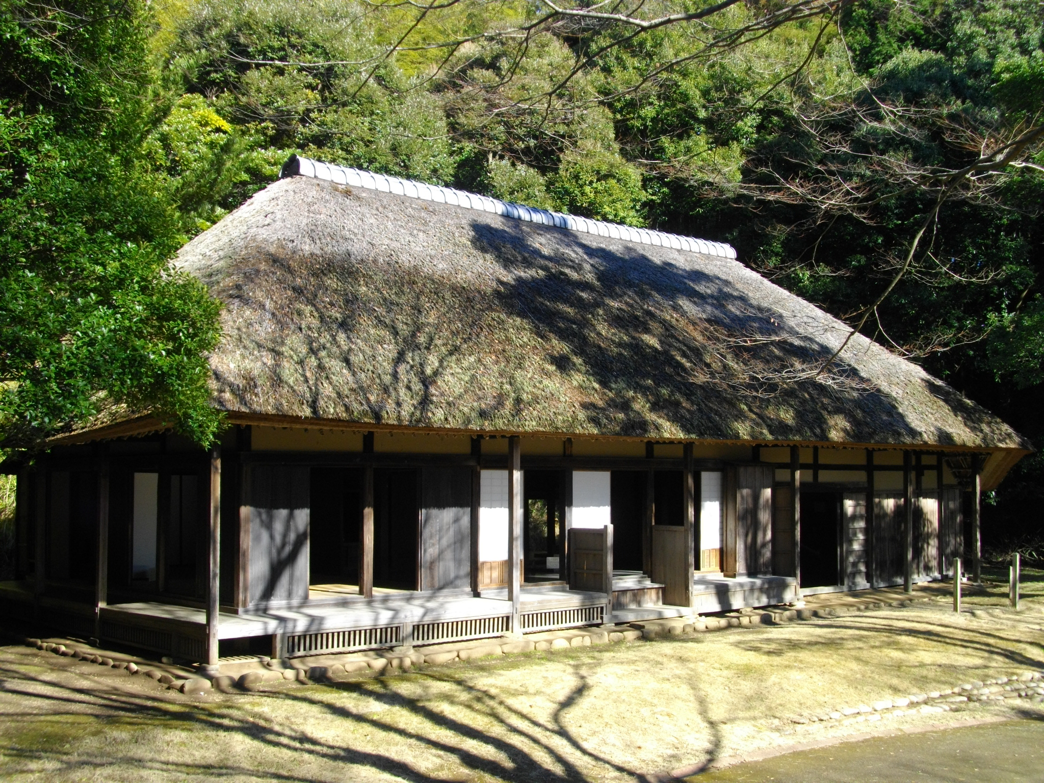 Old House Yabuke